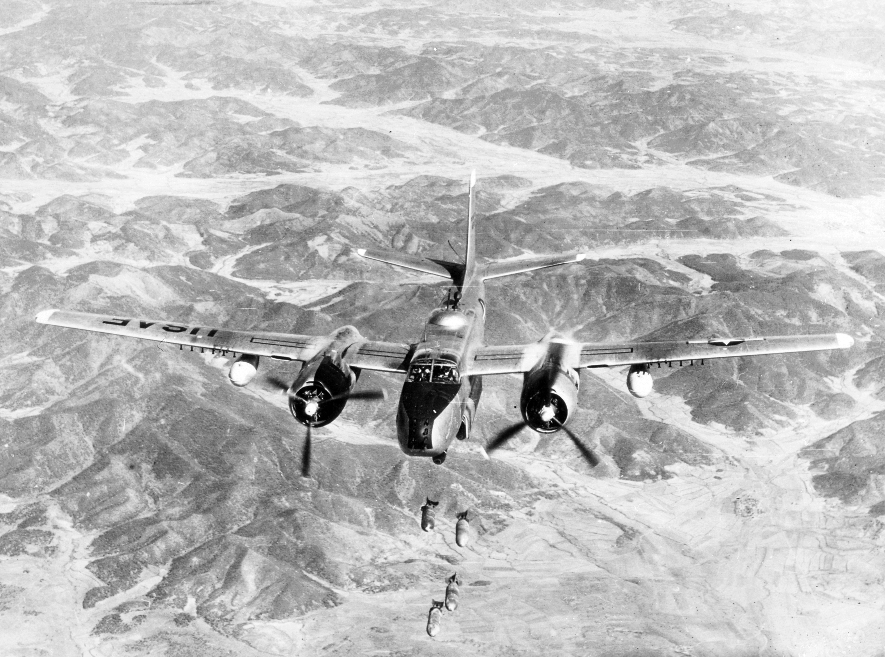 Title:A USAF Douglas B-26B Invader of the 452nd Bombardment Wing bombing a target in North Korea, 29 May 1951. Original caption: "Bombs Away - This Fifth Air Force B-26 Invader of the 452nd Bombardment Wing drops its load of general purpose bombs on a vital Communist target in North Korea. Continued interdiction bombing of enemy supply centers, troop concentrations and communication lines is depriving the Communist troops of sorely needed war supplies., ca. 29 May 1951"